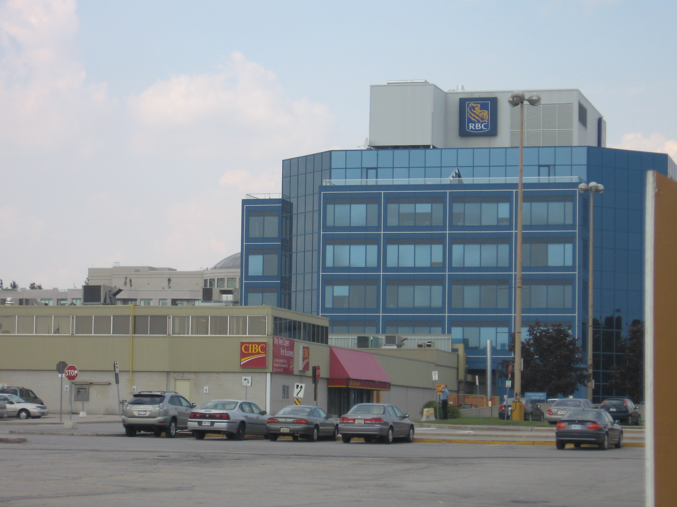 Description: Photograph of Don Mills Centre during nearly complete demolition. Source: Photograph taken by Jerome C. Skeene on 8 September 2006. Copyright: © Jerome C. Skeene.